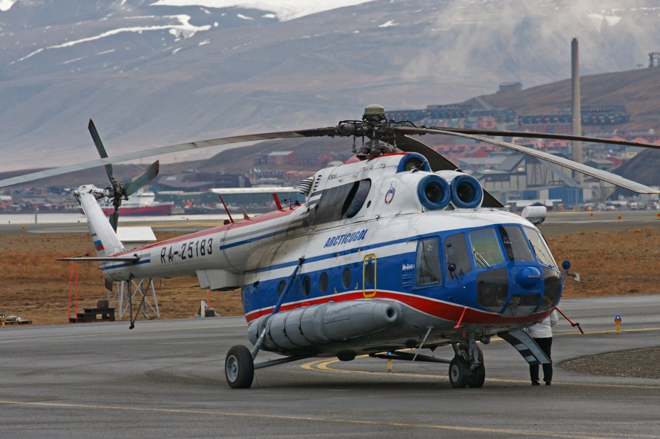 Sparc Mil Mi-8MTV-1 at Svalbard Airport, Longyear